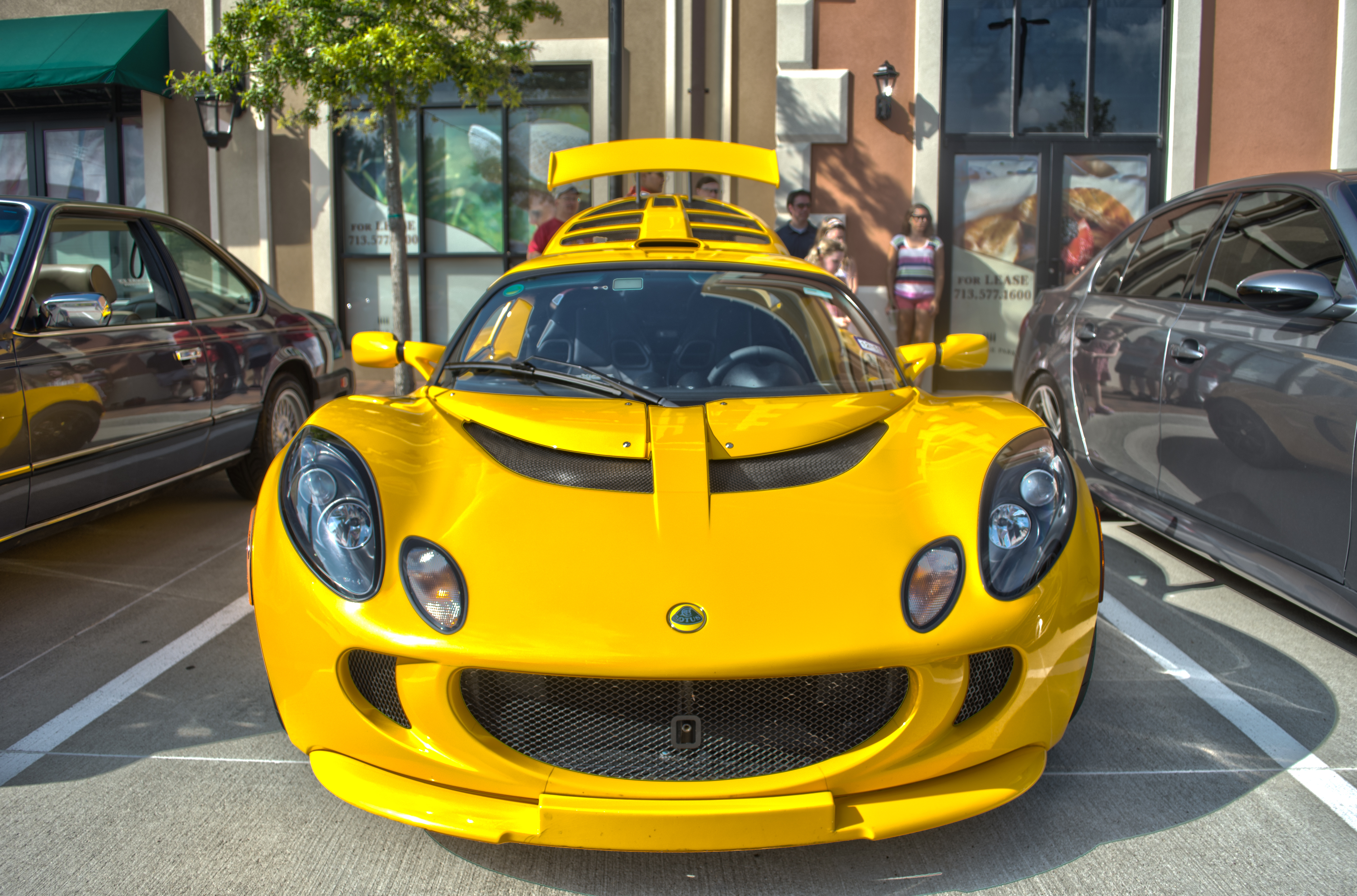 June Houston Coffee and Cars